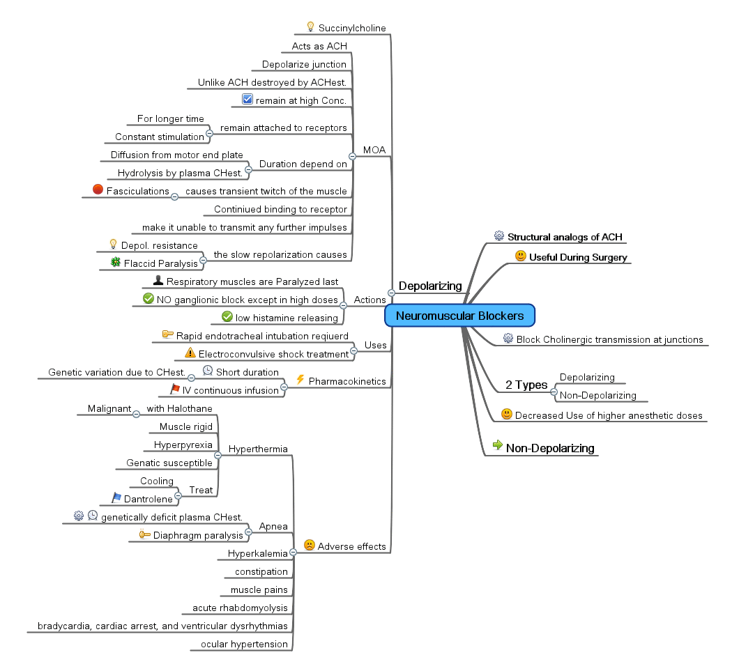 {Neuromuscular depolarizing agent, to requst a mind map please see my page on wikipedia Madhero88}